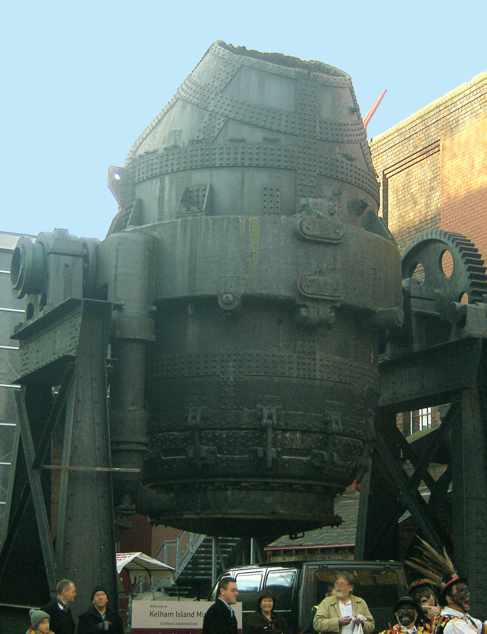 Bessemer converter, photo taken at Kelham Island Museum, Sheffield by Gunnar Larsson.